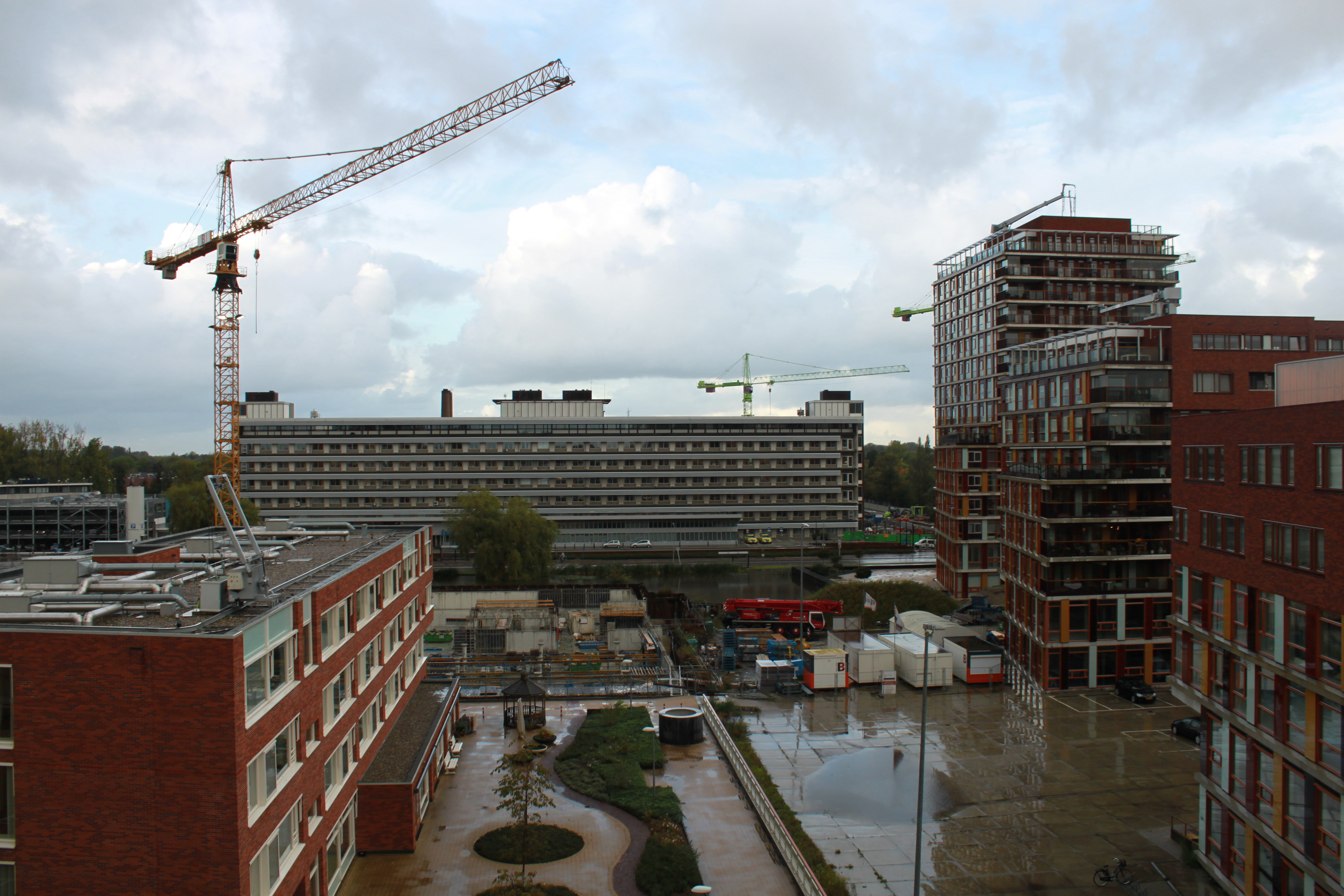 Boerhaavekwartier neighbourhood, Gouda